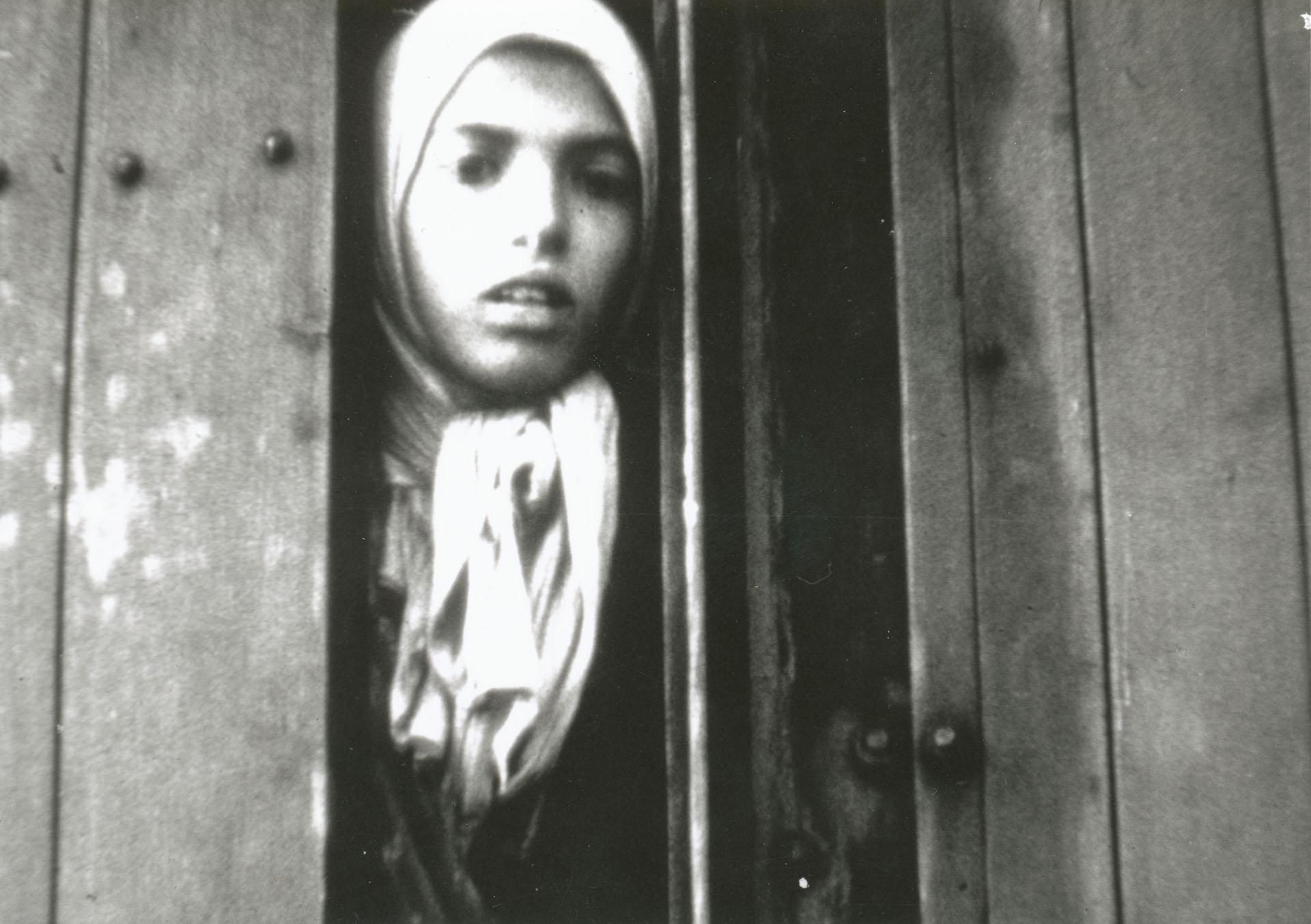 Roma girl Settela Steinbach in the door of the train from Durchgangslager Westerbork (the Netherlands) to Konzentrationslager Auschwitz, were she was killed